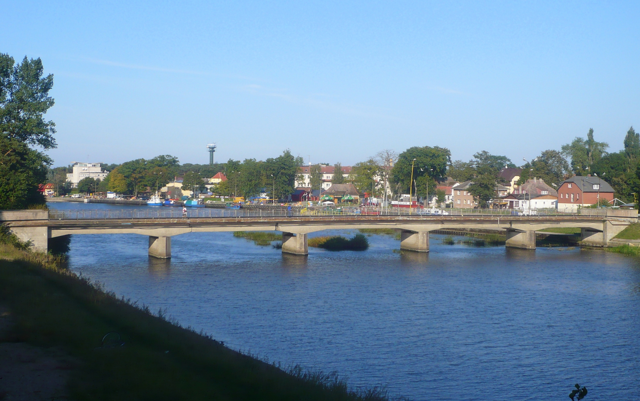 Bridge over Rega river in Mrzeżyno, Poland